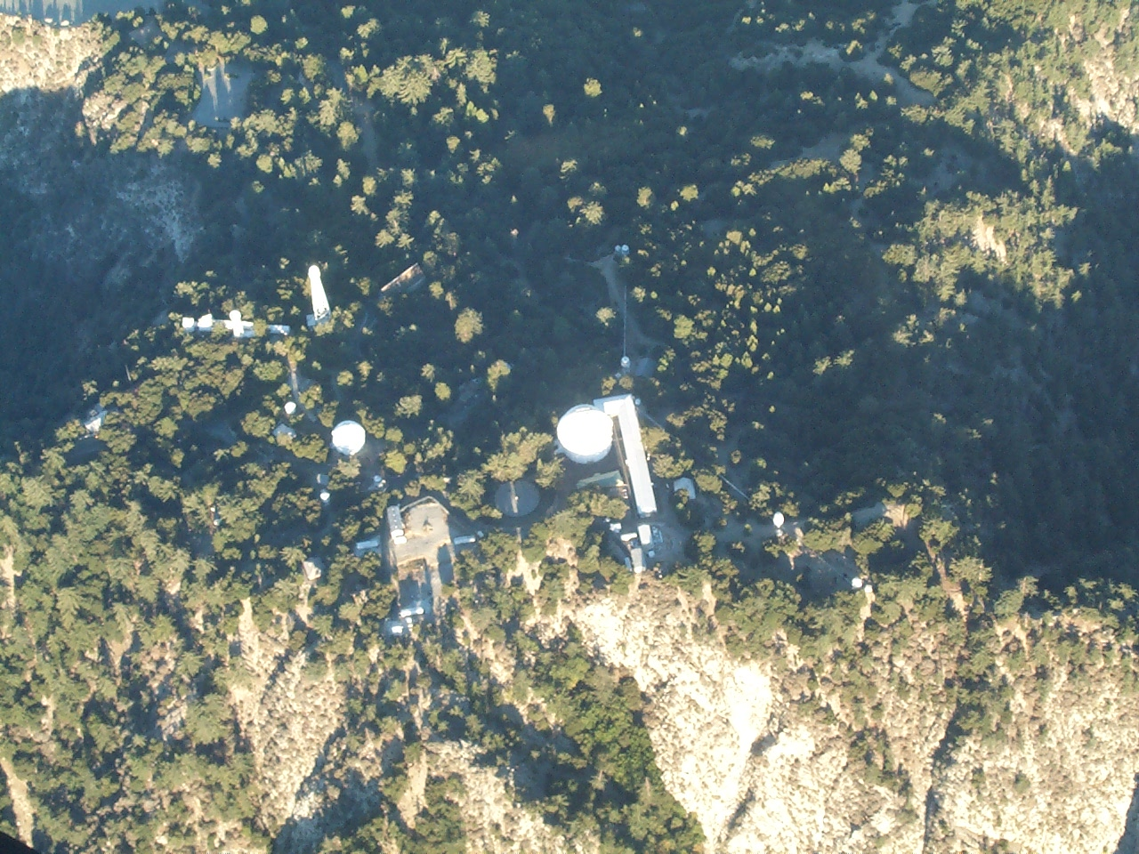 A view of the Georgia State CHARA Array — atop Mount Wilson in Southern California. At the Mount Wilson Observatory complex.